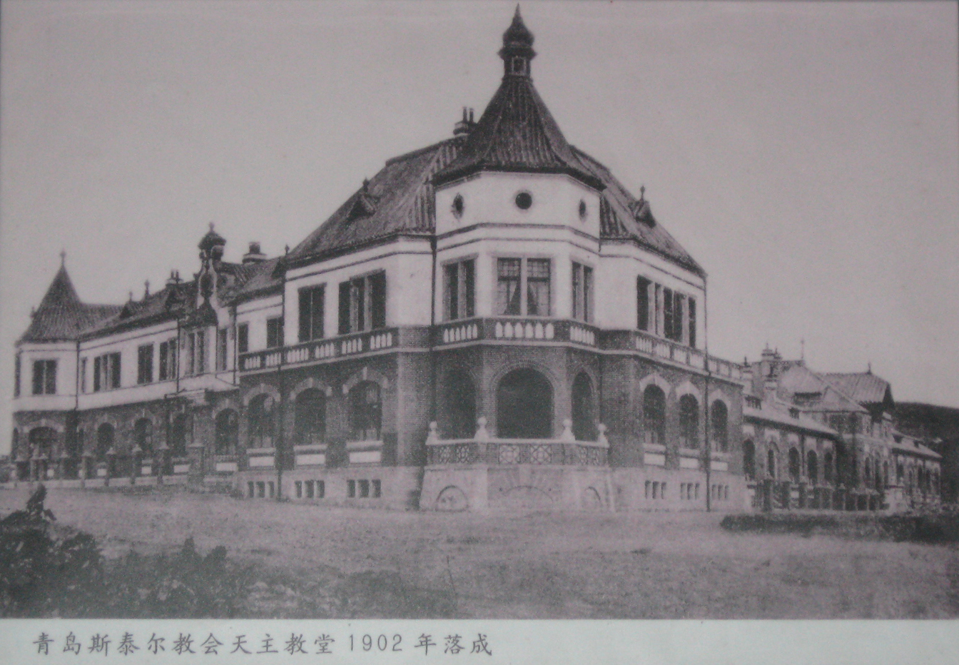 Society of the Divine Word Mission House, Qingdao, China, 1902. This is a rephotograph. Original photograph owned by the Diocese of Qingdao, and located in the church office of St. Michael's Cathedral, Qingdao. The priests at St. Michael's Cathedral reported that this photo was taken after the building was completed in 1902. The building was the headquarters of the Society of the Divine Word, and served several purposes, including hall, church and residence of the mission.